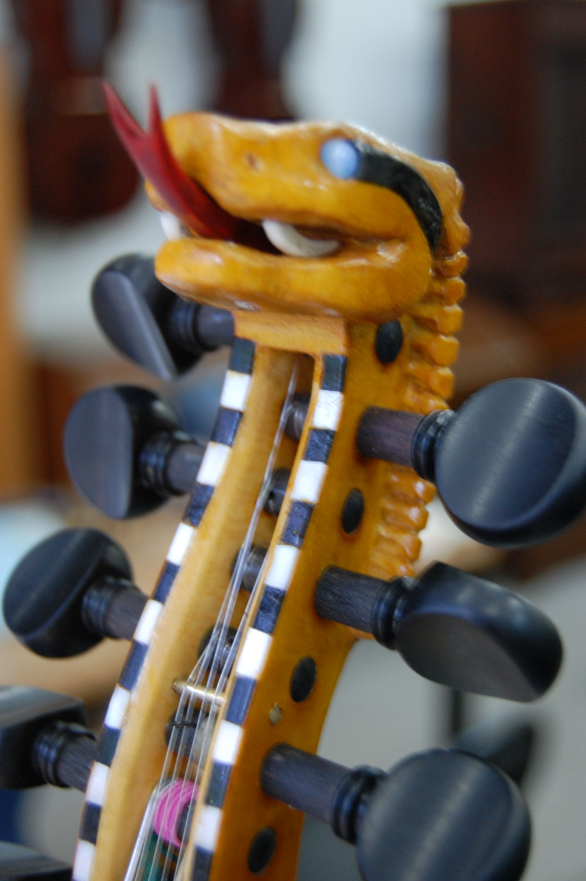 Hardanger Fiddle Scroll - Queen of The Snakes, based upon Sucuriju, Anaconda, Big Snake myths